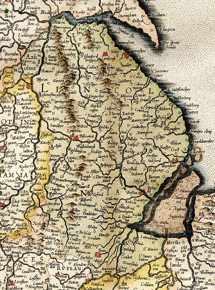 Map of the county of Lincolnshire, England, as depicted in Mercator's Atlas Cosmographicae of 1596